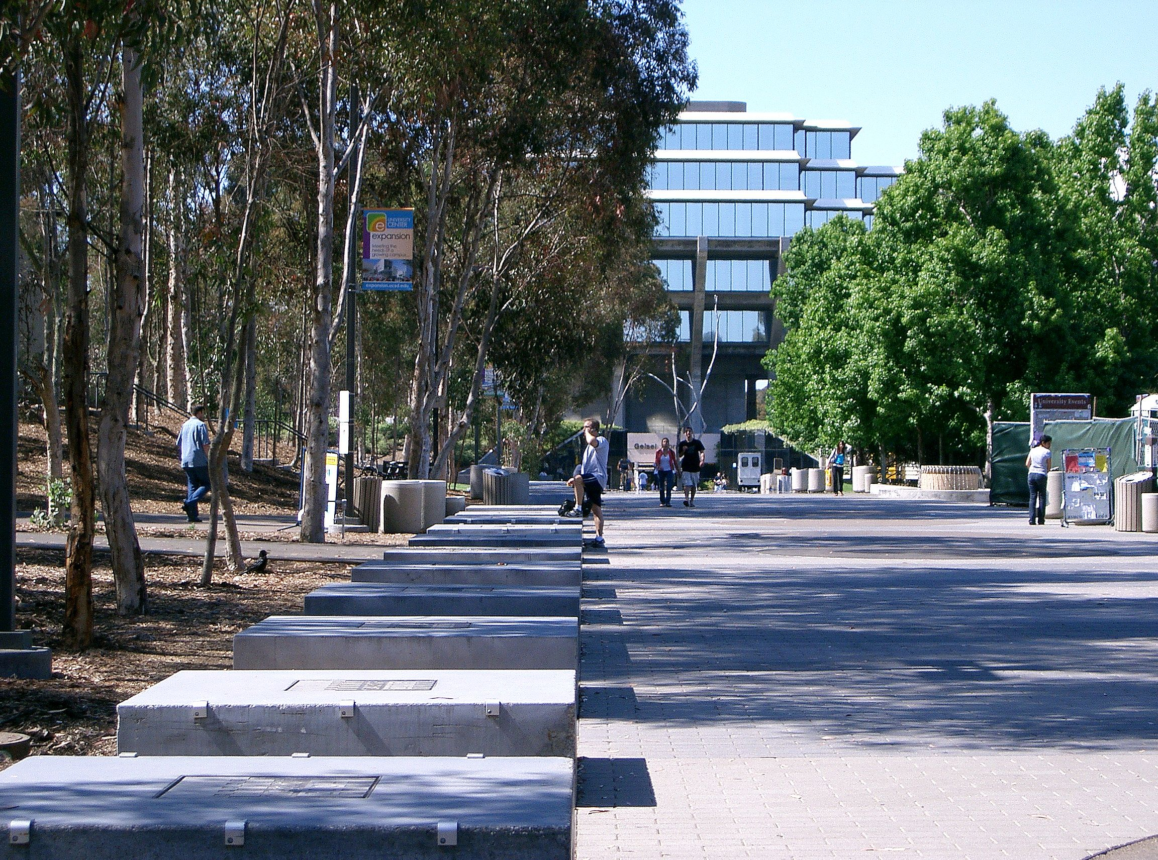 UCSD Library Walk, the geographical center of the UCSD campus. Post-processing with focus enhancement filters. Grain abundant on image because of the scale of the campus - the image was taken from far away. Taken by User:Znode. See other information in EXIF metadata.